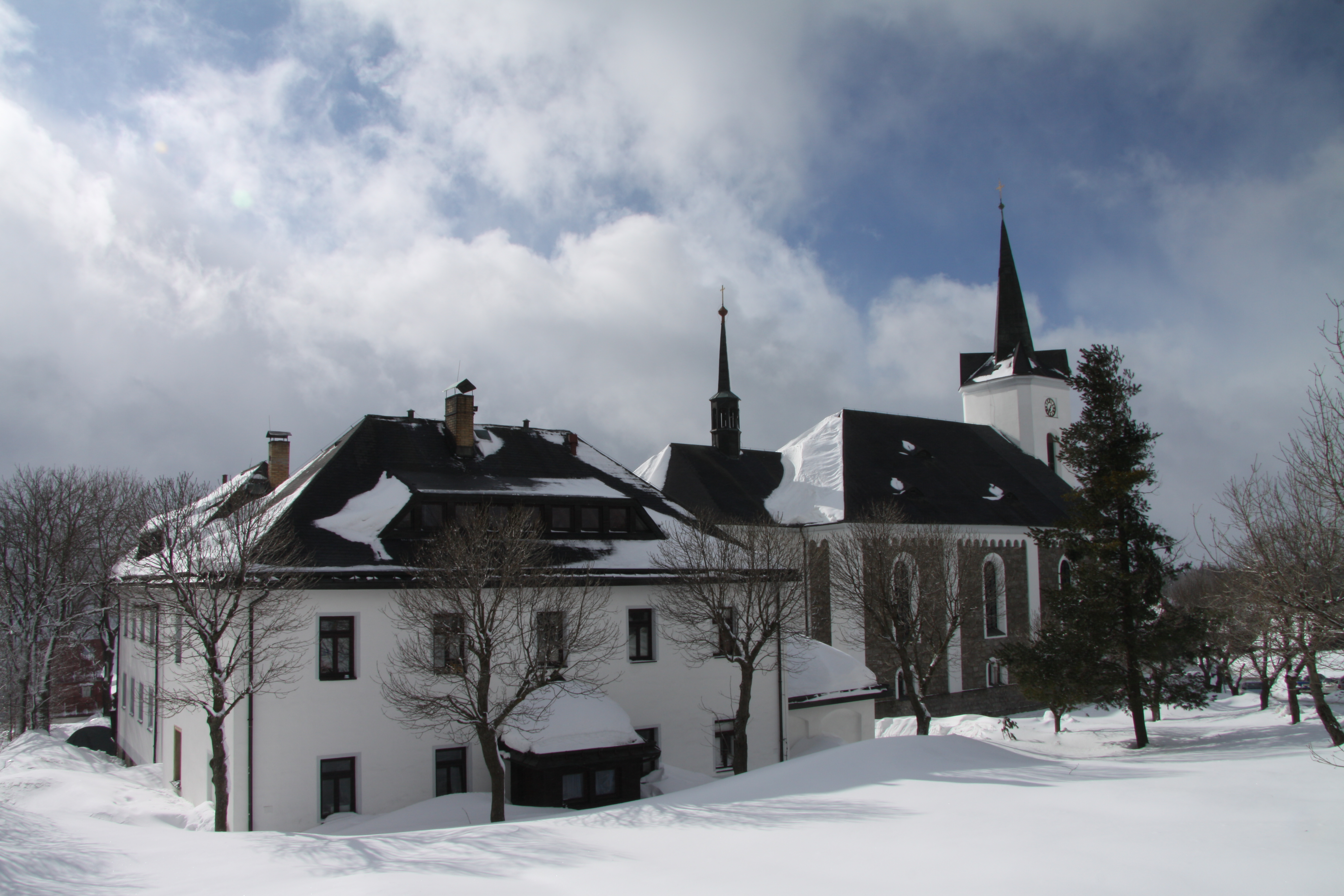 Kořenov-Příchovice, Jablonec nad Nisou District, Liberec Region, the Czech Republic. Church of Saint Vitus. - Google Maps - Google Earth